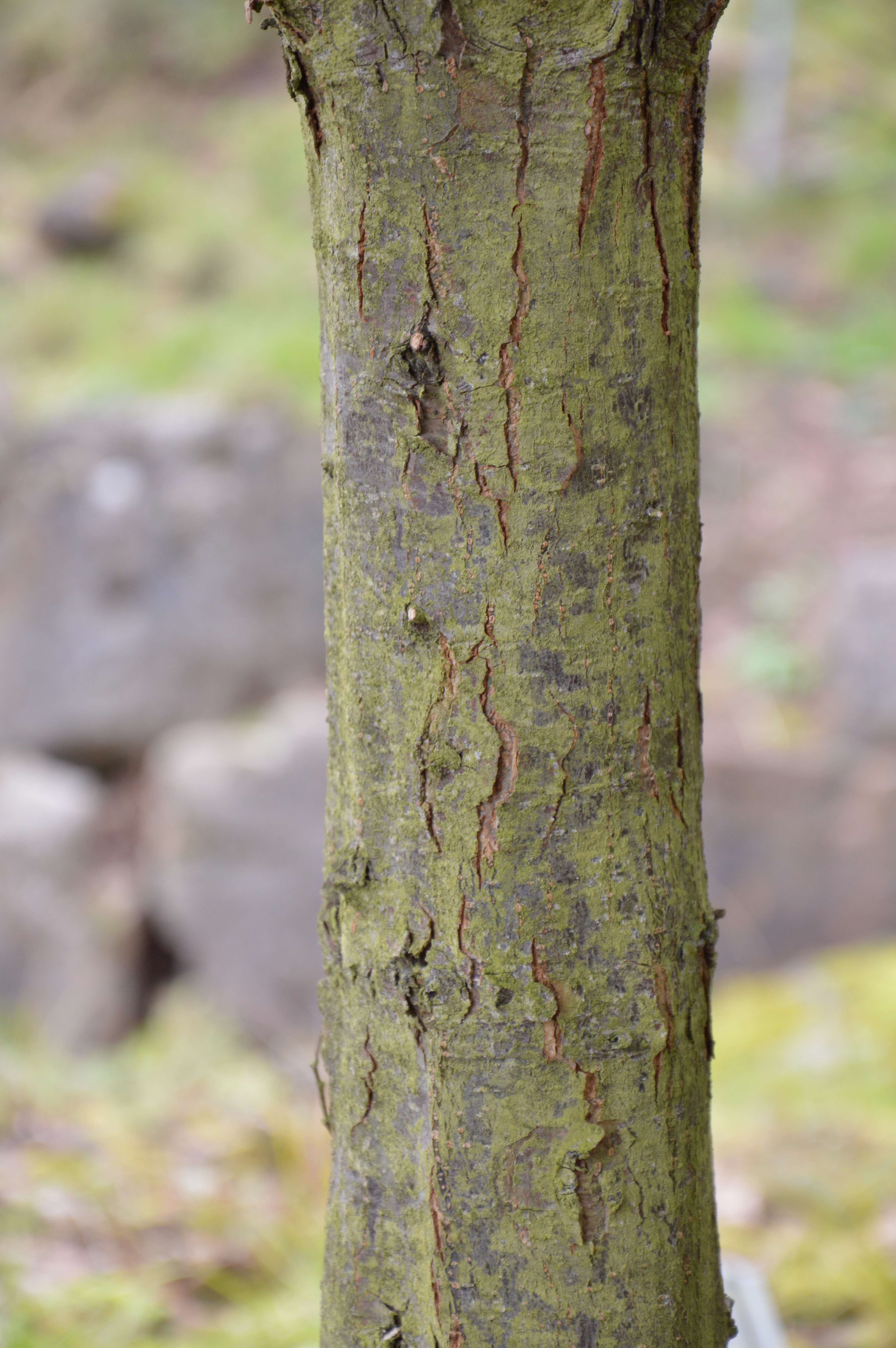 Quercus aquifolioides bark at the New Botanical Gardens of George August University, Göttingen, Germany